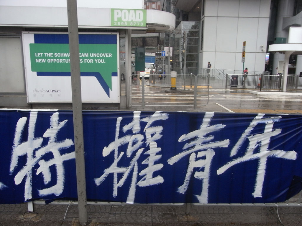 八十後反特權青年